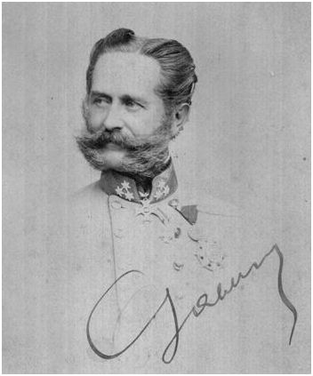 Ludwig Karl Wilhelm von Gablenz